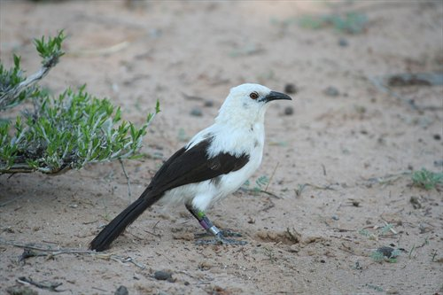 Photograph of the plumage of an adult Southern Pied Babbler (Turdoides bicolor).